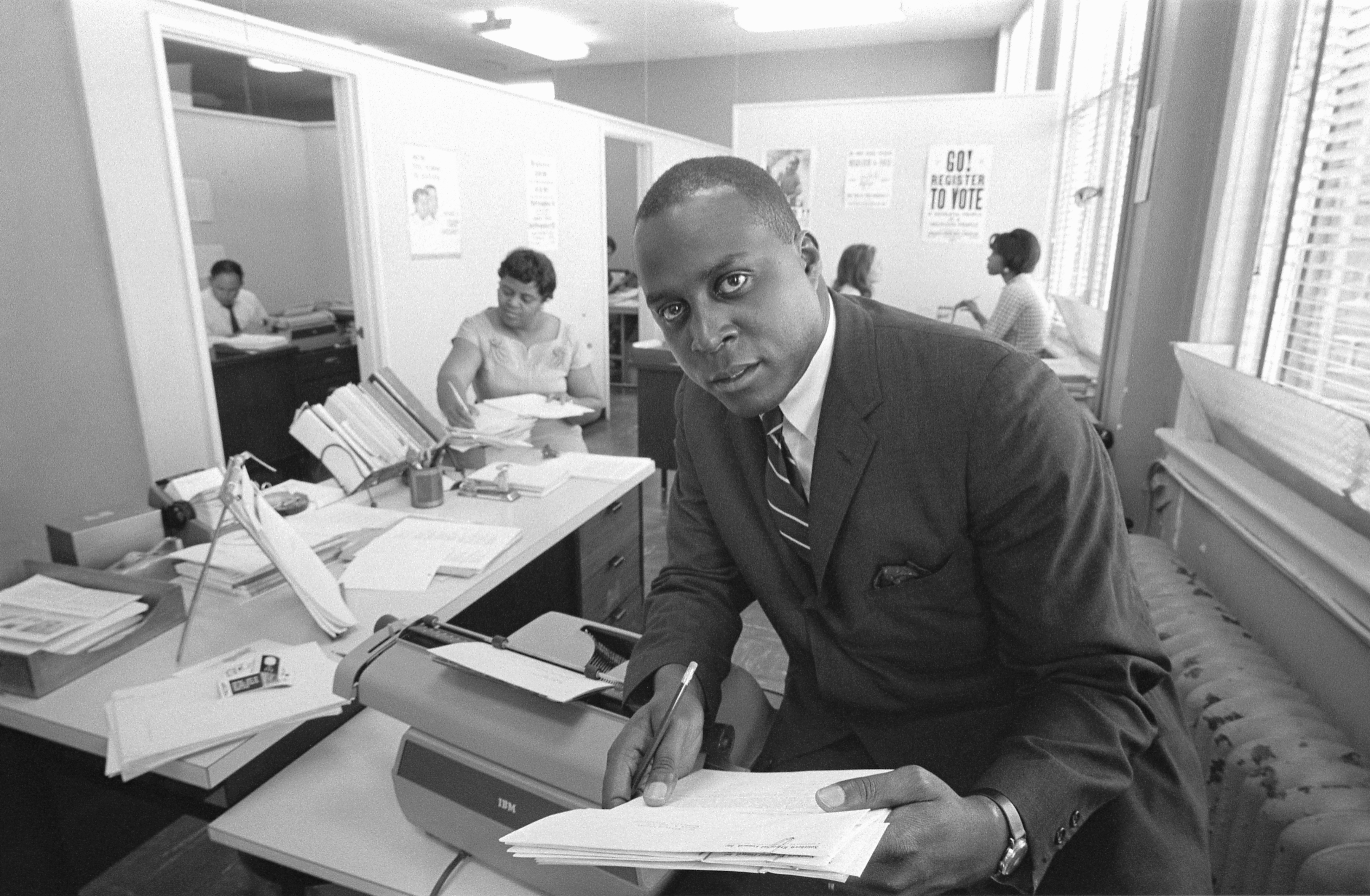 African American lawyer Vernon E. Jordan working on a voter education project, seated at a desk with a typewriter at the Southern Regional Council, Atlanta, Georgia. / WKL.